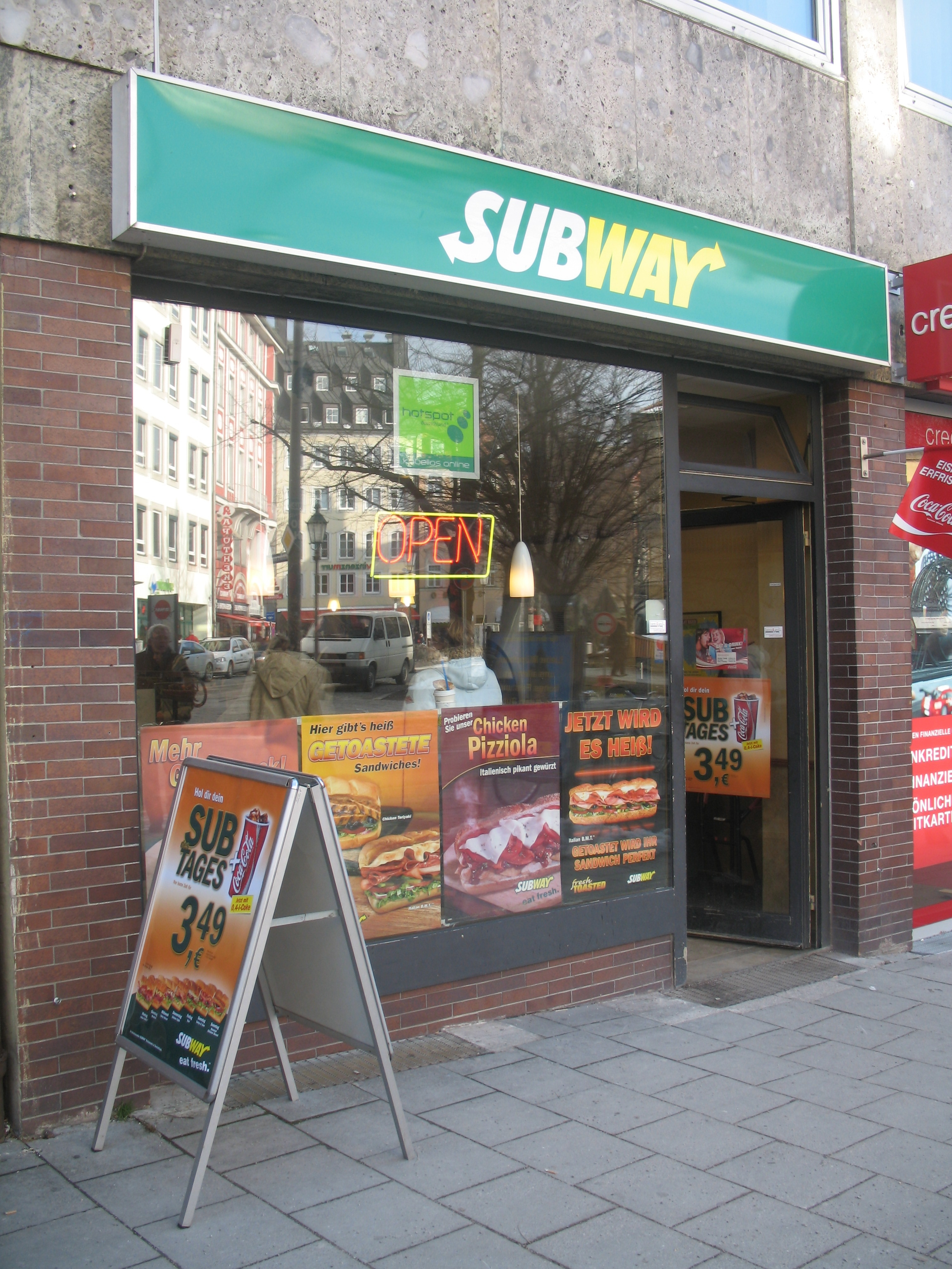 Subway in Munich at Rindermarkt